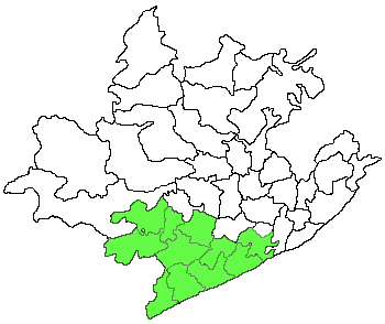 Narsipatnam revenue division in Visakha district (in green)